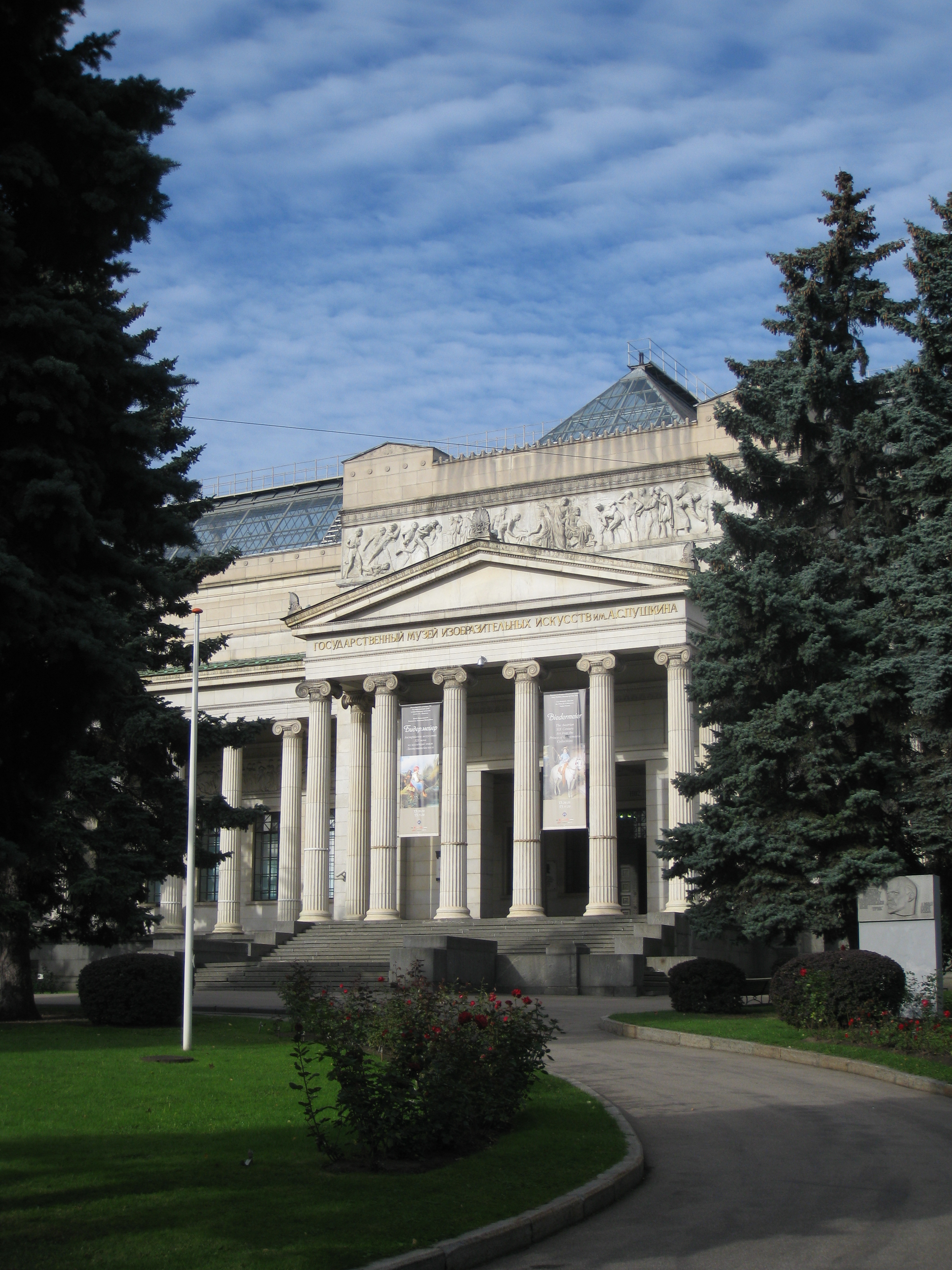 Exterior views of the Pushkin Museum מוזיאון פושקין